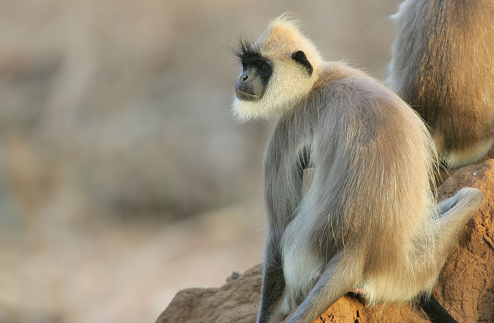 Common throughout the drier lowlands of the island.